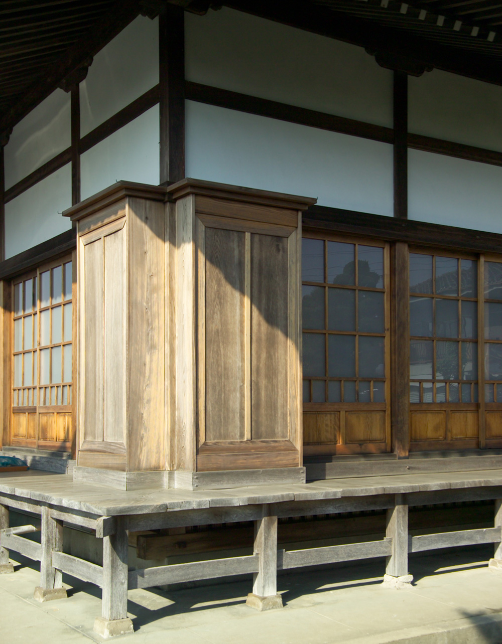 Pocket door at a Zen Buddhist temple in Japan. I took the photo.